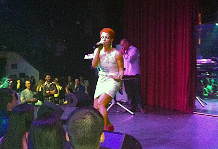 Concert of Aurela Gaçe in Zurich, October 1, 2010